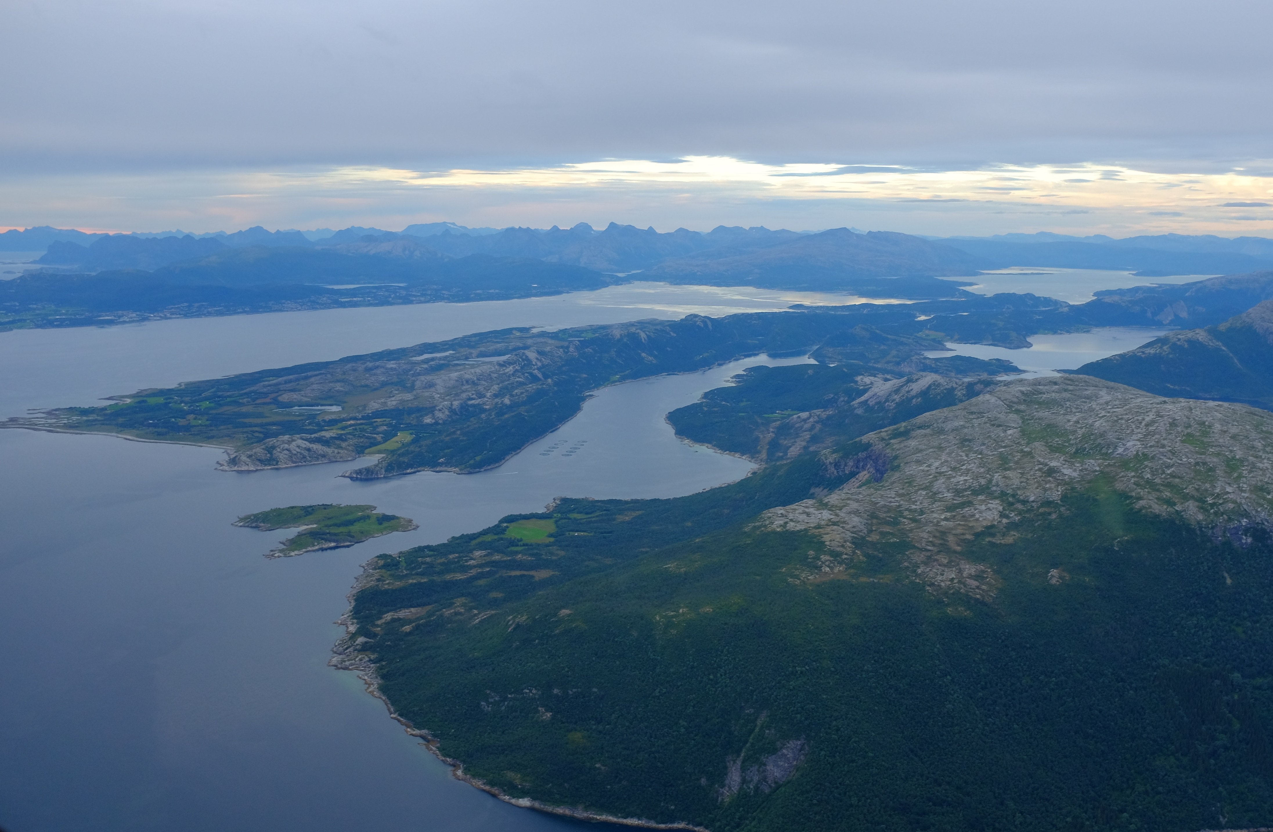 Skånland Nature Reserve at Skånland in Bodø municipality in Nordland. The nature reserve stretches from Skånland Mountain and down to the fjord in the middle of the picture. The area is protected to preserve a forest area with all natural plant and animal life and all the natural ecological processes.